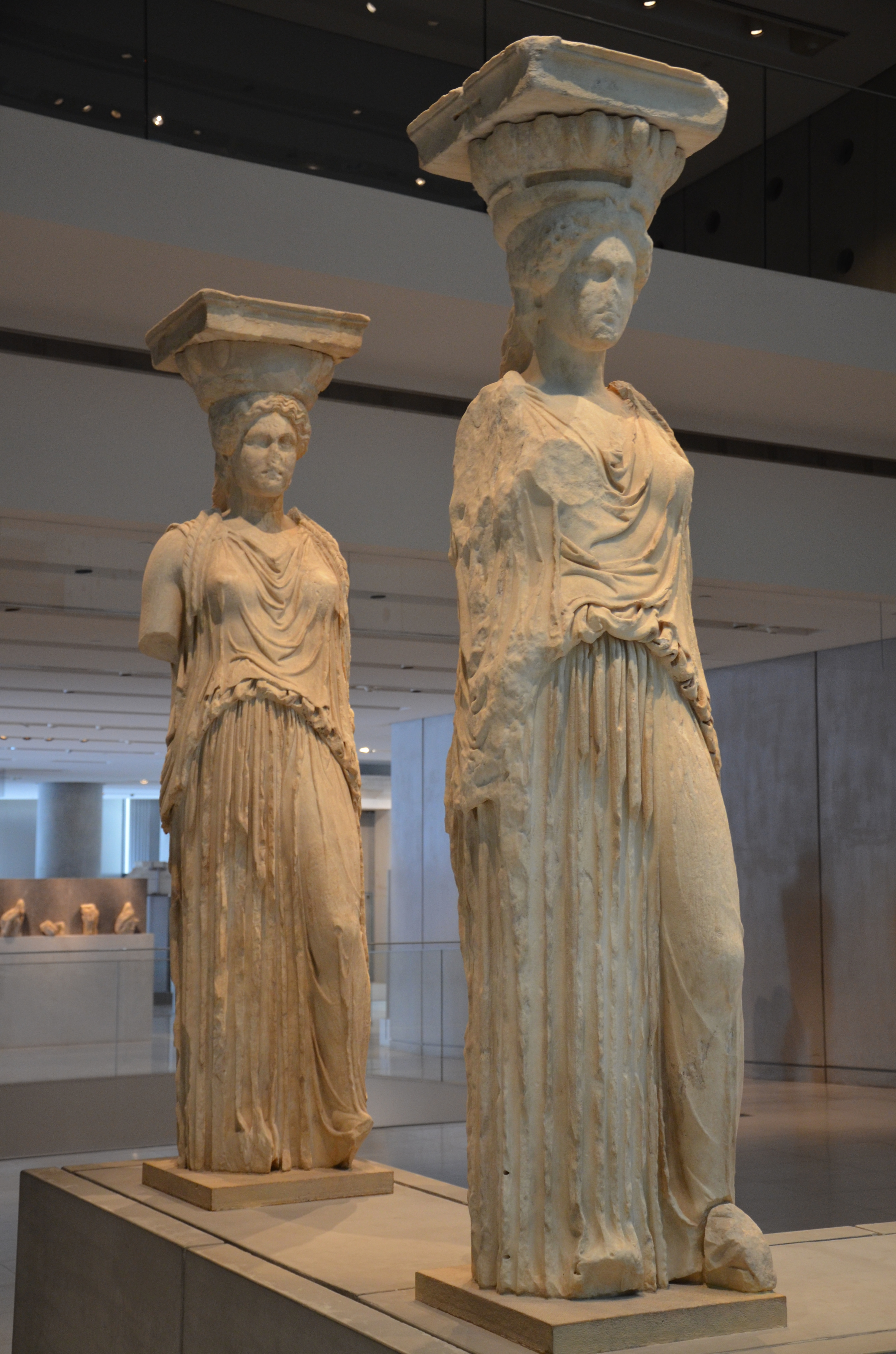 Caryatids from the Erechtheion on the Acropolis, Acropolis Museum, Athens